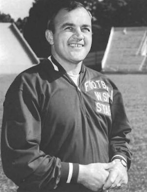 Washington State football coach Bert Clark in 1966